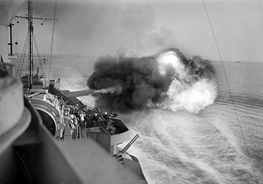 IWM caption : The Campaign in Sicily, July 1943: The 15 inch guns of HMS WARSPITE hurling shells at enemy troops still holding out at Catania, Sicily as seen from the bridge of the battleship. It was called on by the army to carry out this task and hurled tons of shells at a range between 15,000 and 11,000 yards. At the same time destroyers engaged shore batteries from a still closer range and although our ships were attacked later from the air we suffered no casualties or damage.